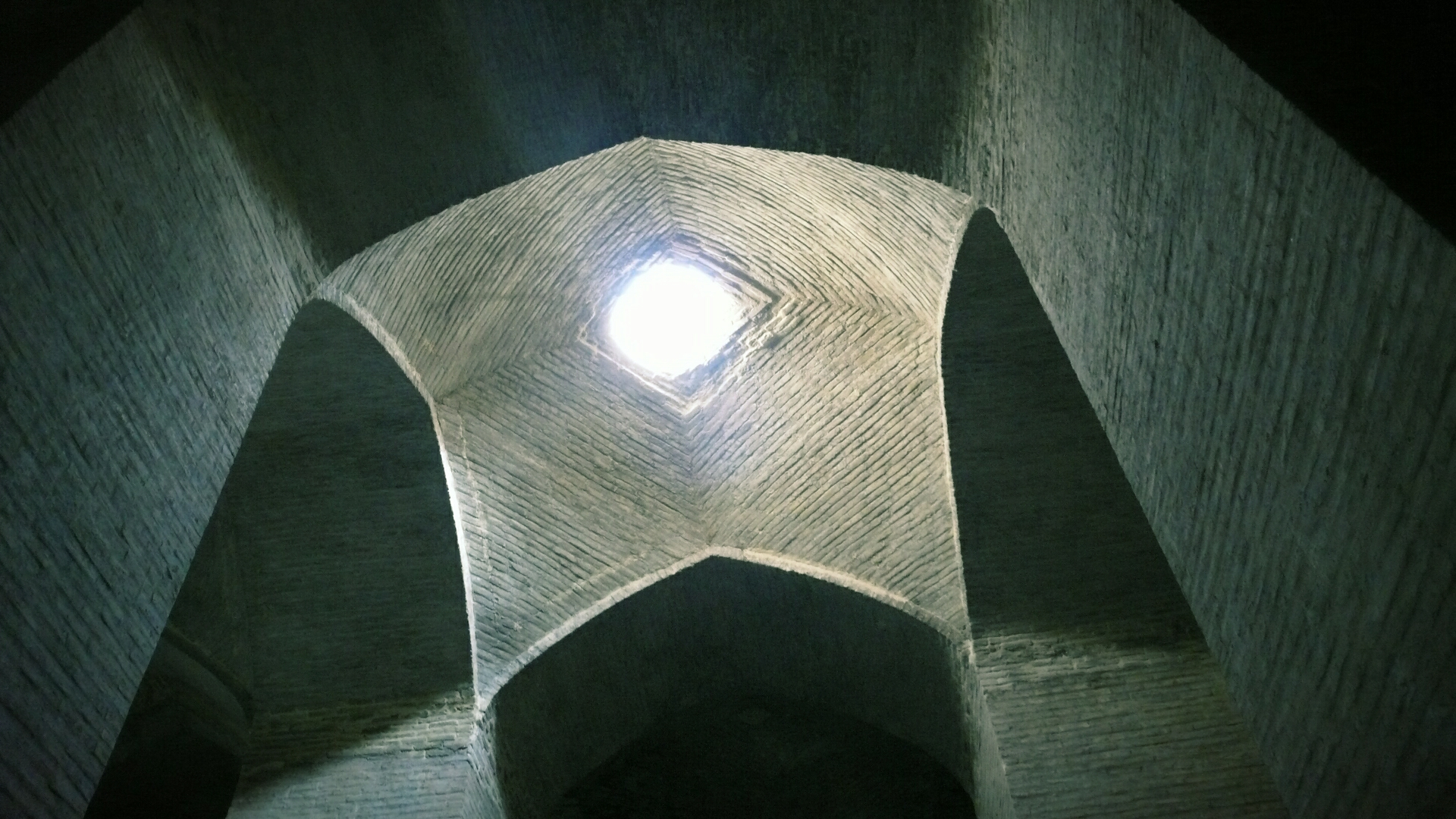 Vakil water storage (late 1700's)